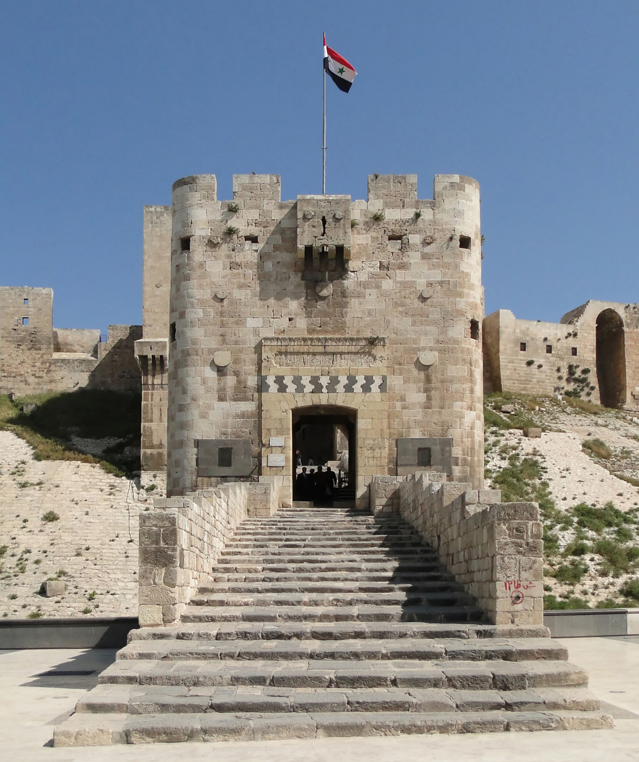 Bastion of the Citadel of Aleppo, Syria